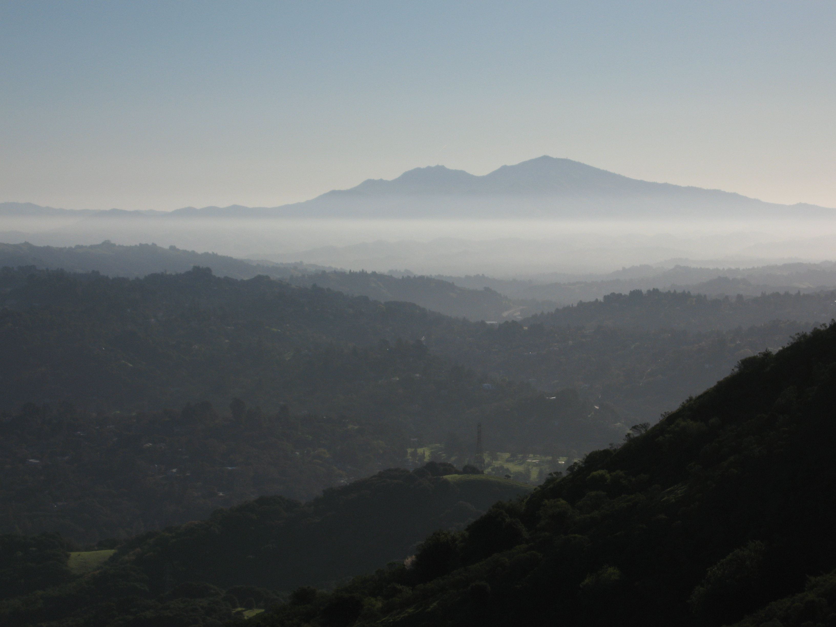 Mount Diablo and California Coast Ranges from Tilden Regional Park in Berkeley, California.